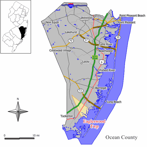 Source: Jim Irwin Original work by Jim Irwin, December 2005.